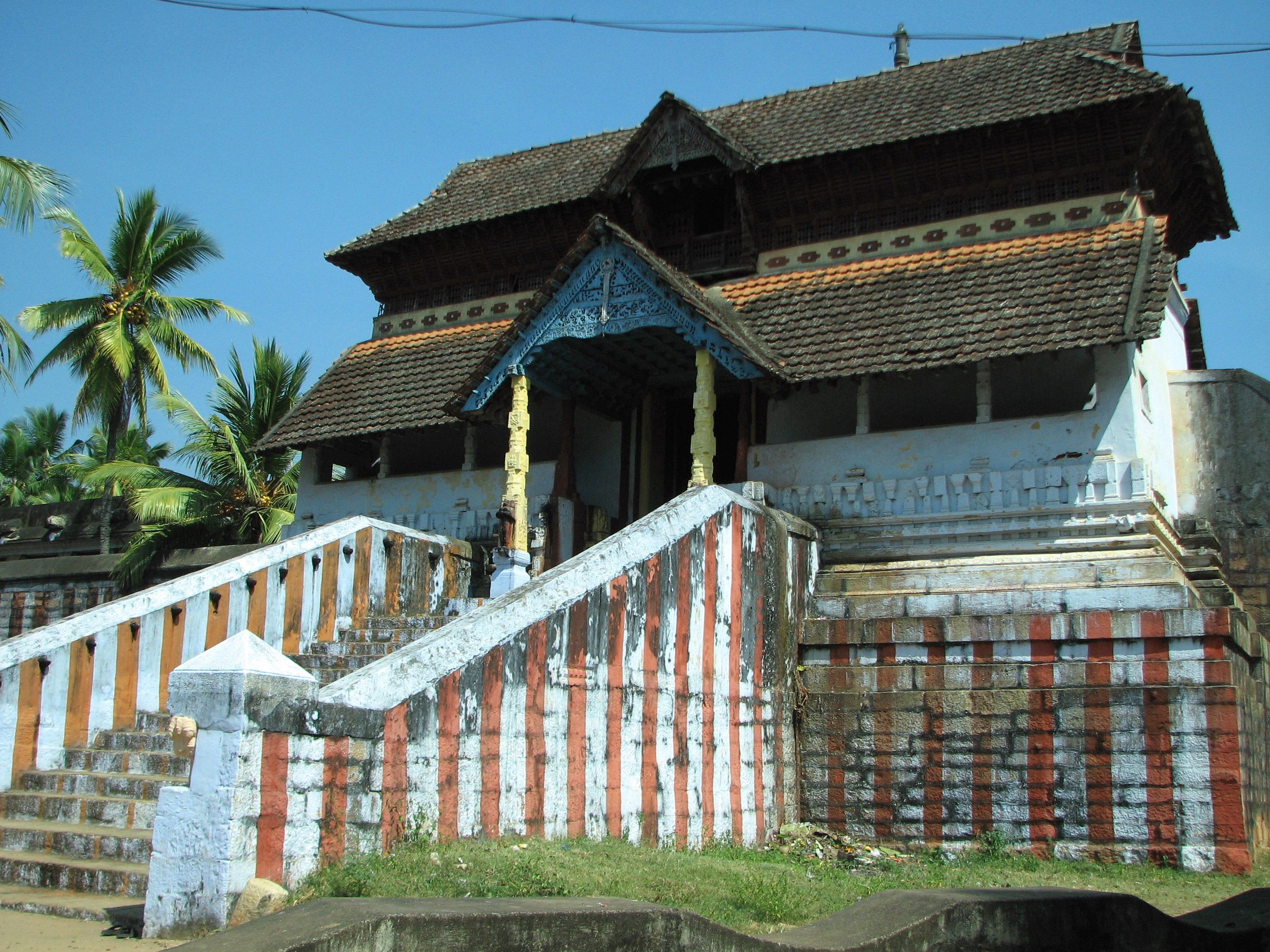 self-made photograph ; Author's Name : Infocaster